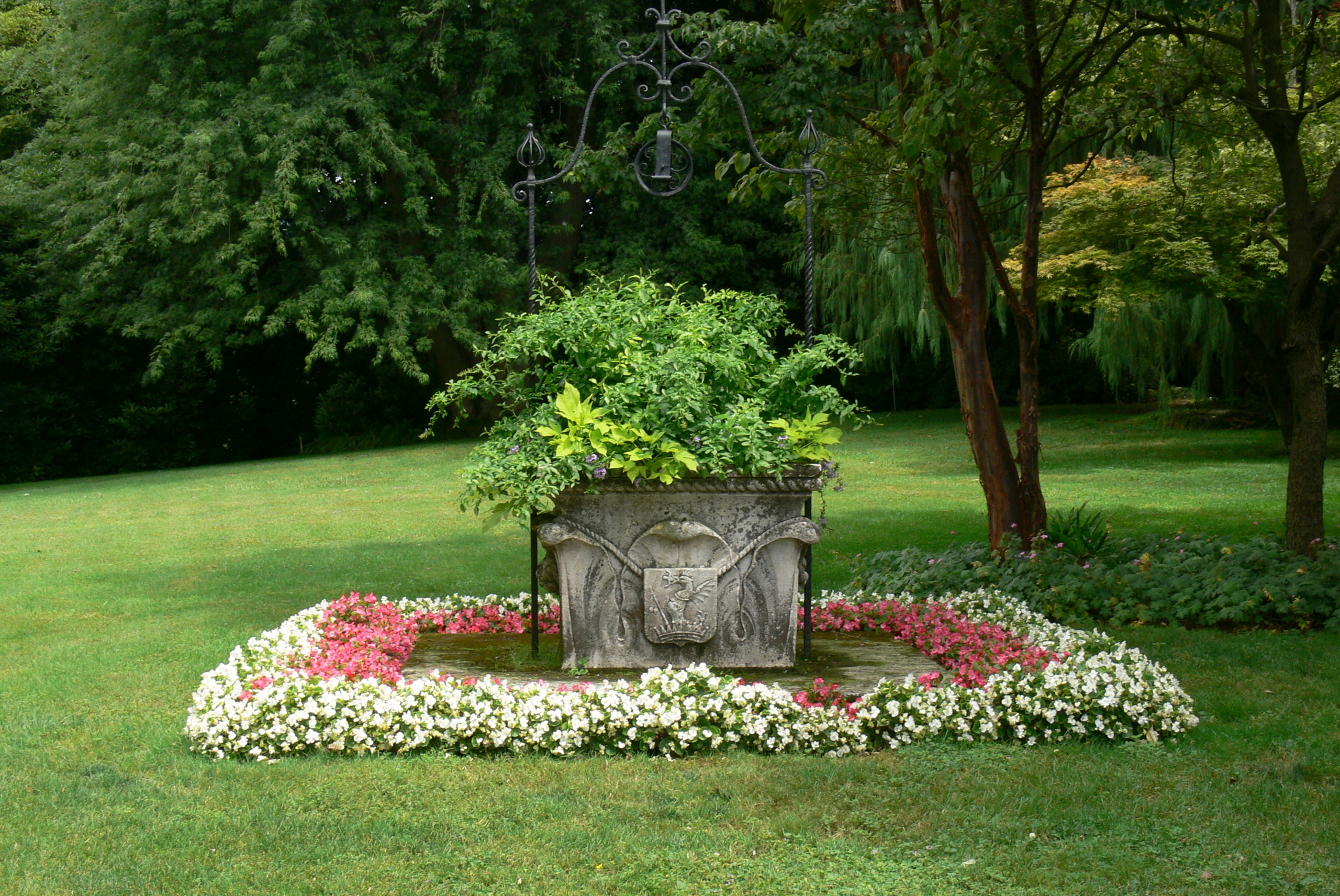 Isola Madre ( Lago Maggiore ). Botanical gardens: Fountain with Visconti coats of arms.